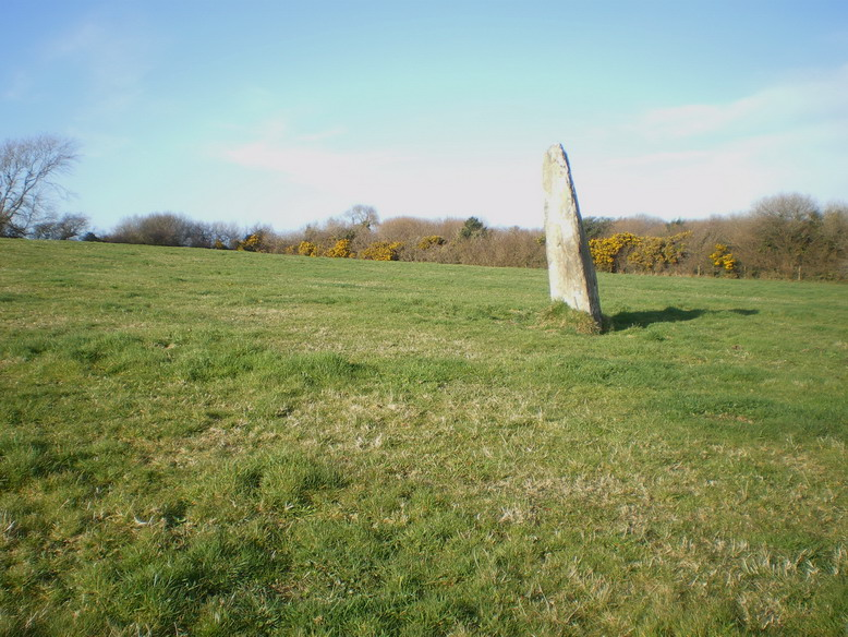 Standing Stone leaning at Dinas Cross There's quite a lean on the stone from this angle, but testing proved that it's actually still pretty solid in the ground. The cattle seem to use it as a rubbing post; they'll push harder than I ever could, and it's survived a few years of that sort of treatment.